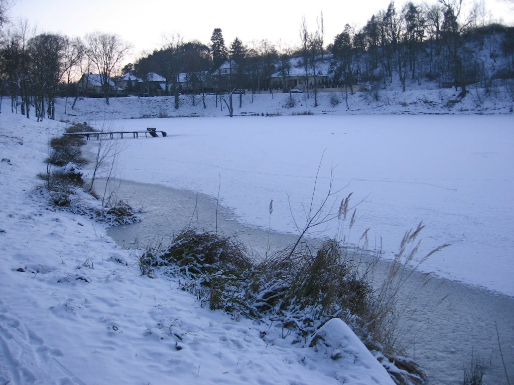 Błotne Lake in Gorzów Wielkopolski